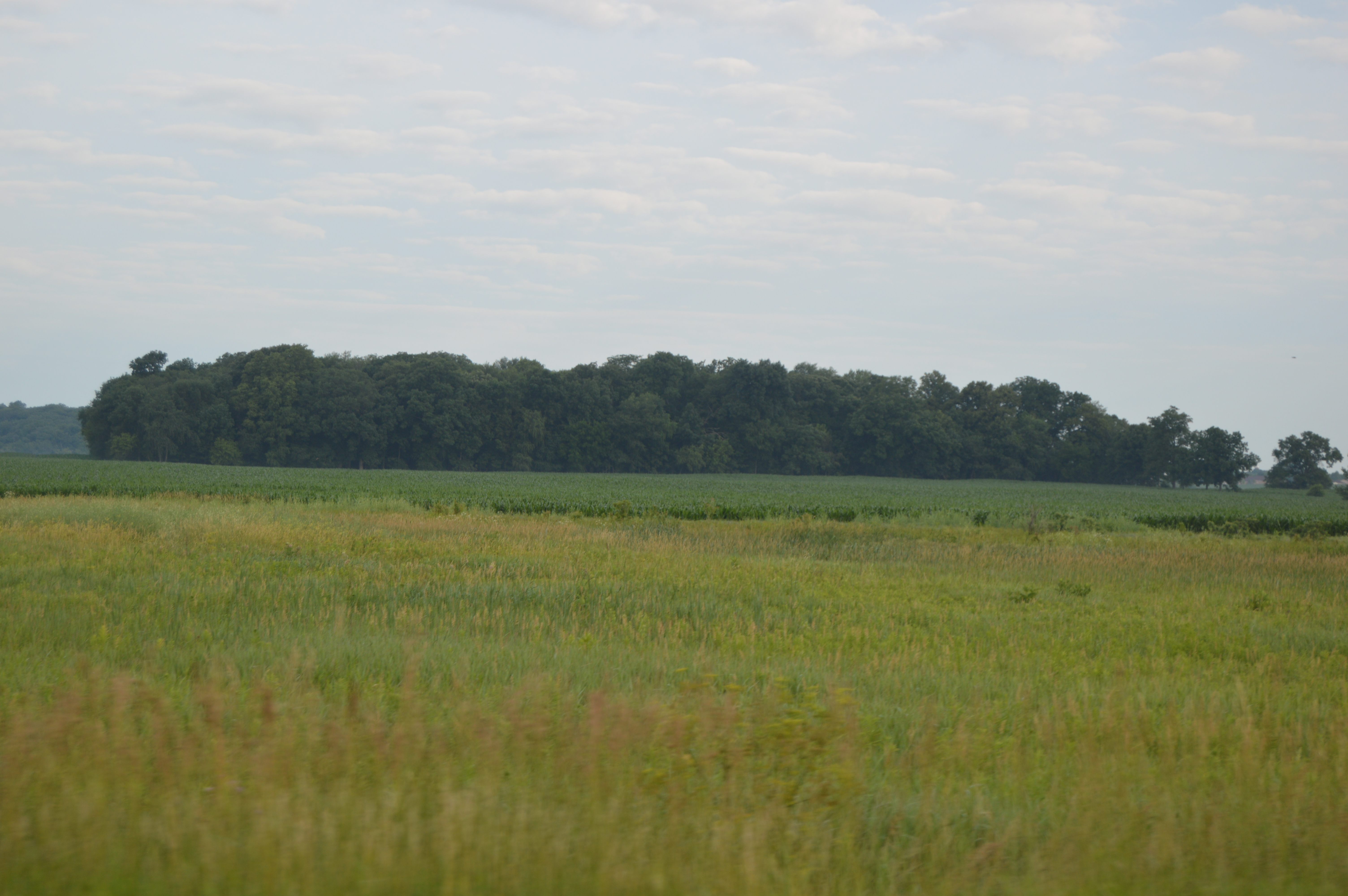 Overview of the northern portion of the McCune Mound and Village Site, seen from Illinois Route 40 north of Sterling in Sterling Township, Whiteside County, Illinois, United States. Built in 1900, it is listed on the National Register of Historic Places as an archaeological site.